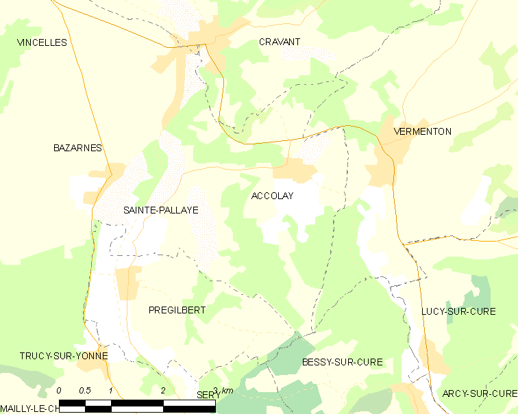 Map of French municipality Accolay